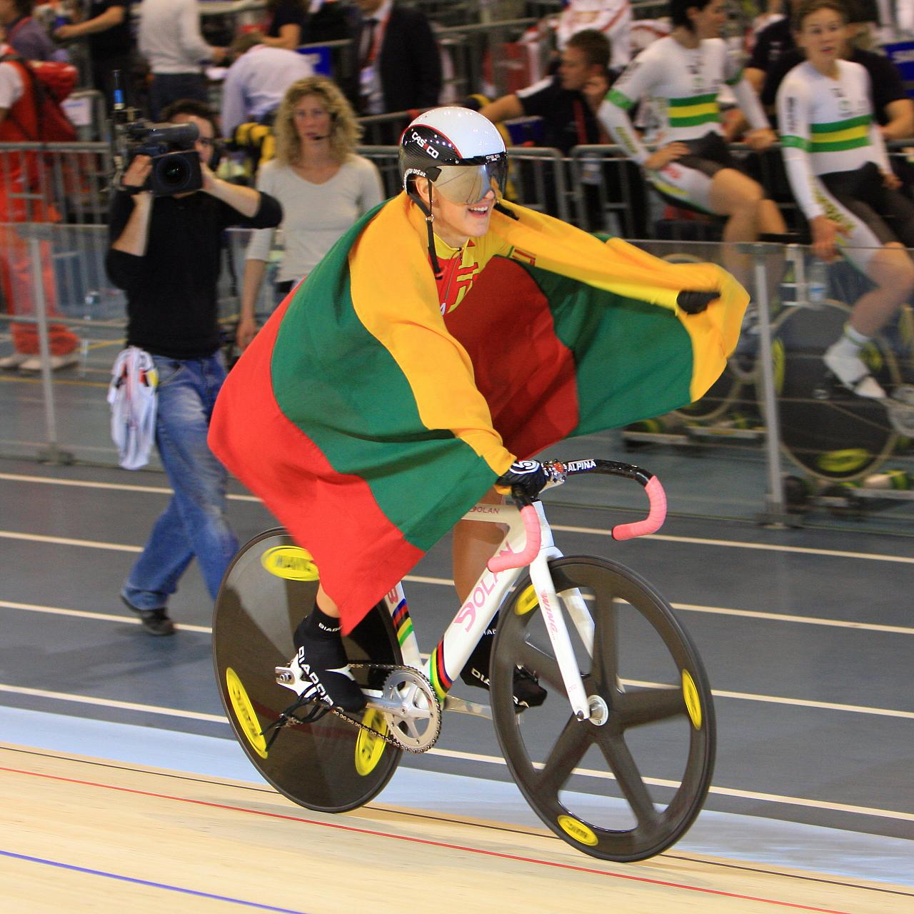 Simona Krupeckaite of Lithuania show her excitement after winning the Keirin world championship final.